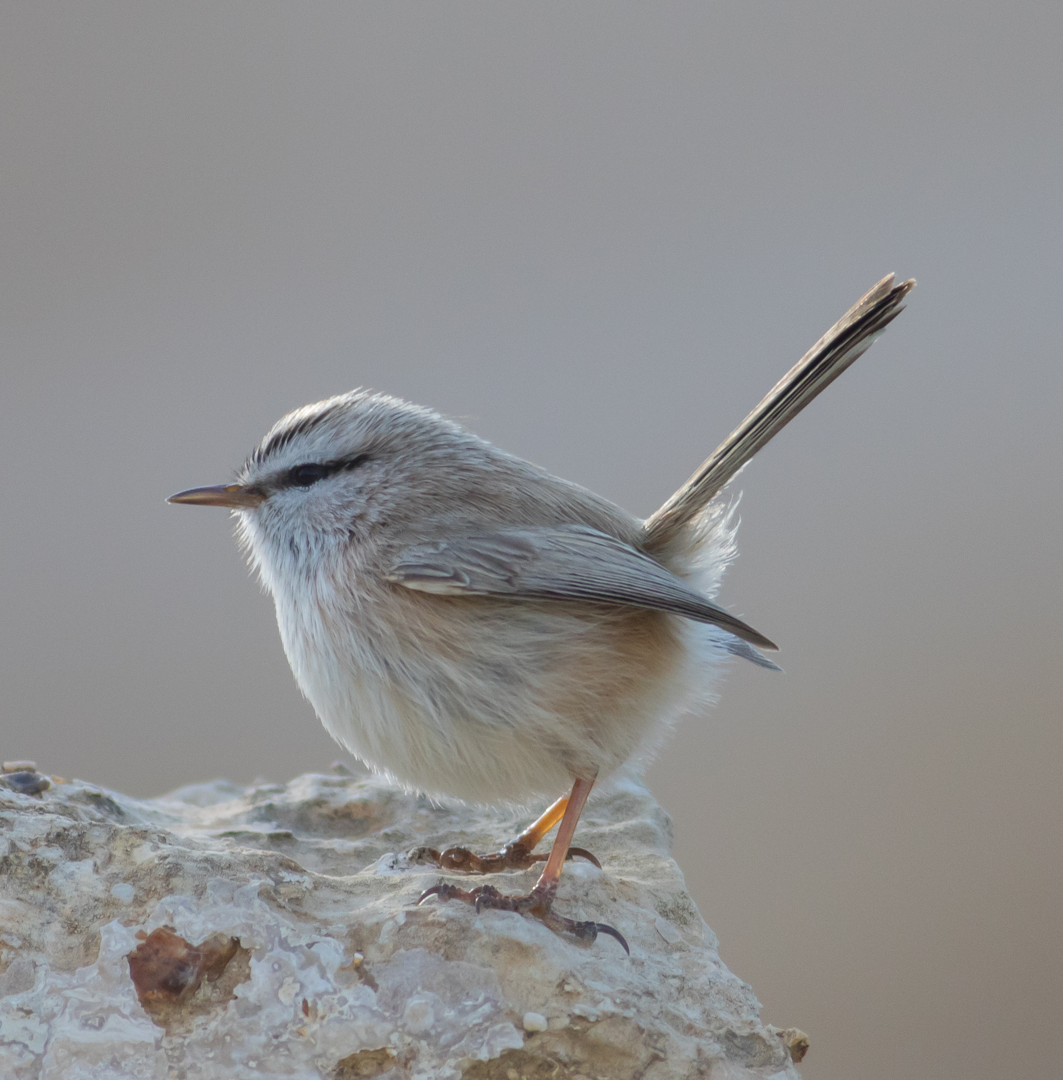 Streaked scrub warbler (Scotocerca inquieta) ,photo taken next to Sde Boker, Israel.